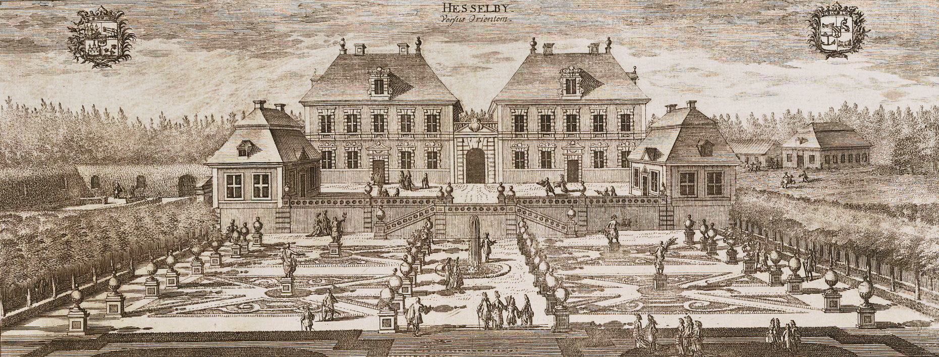 Suecia antiqua et hodierna, Hesselby